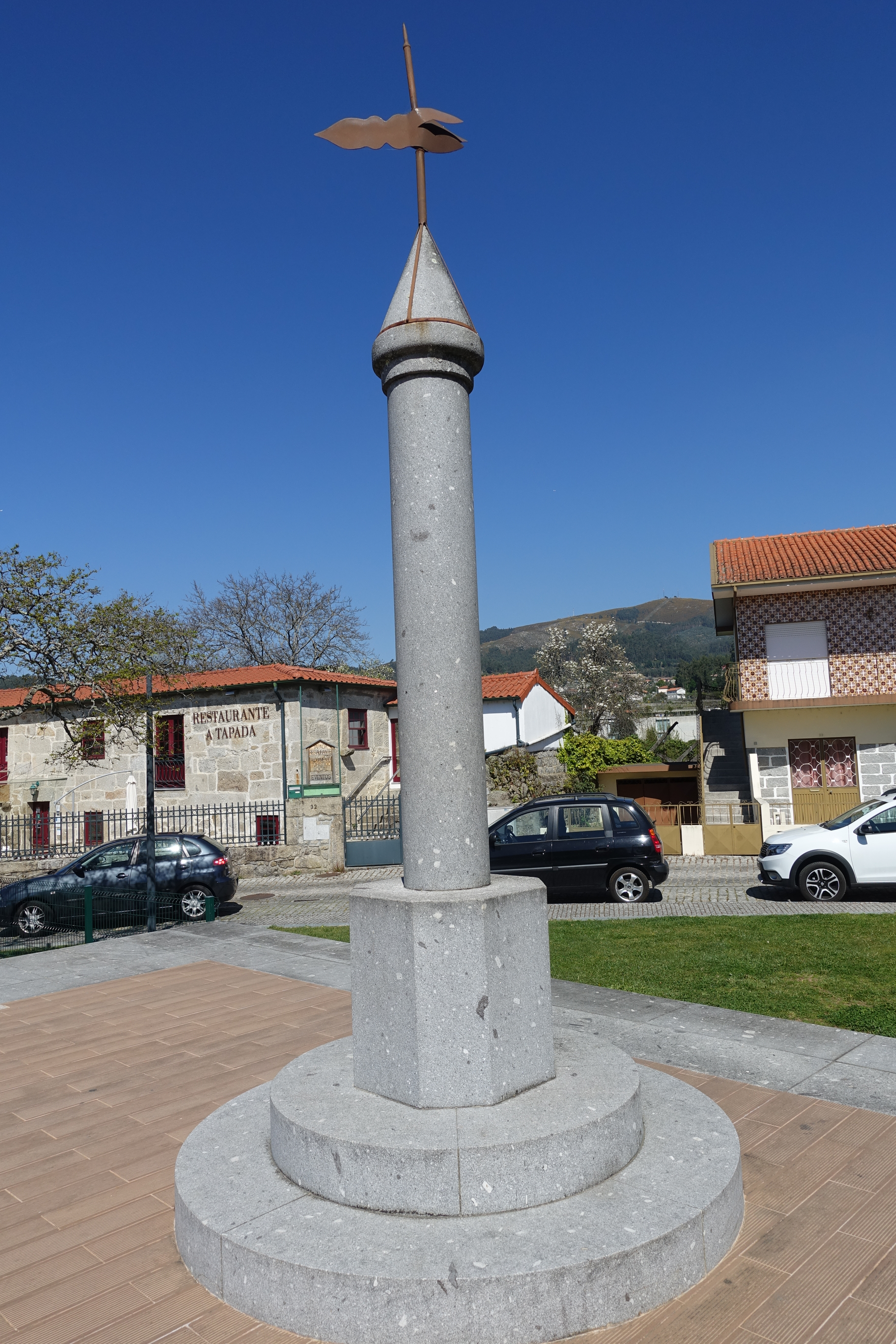 Pelourinho de Amares, Braga district, Portugal